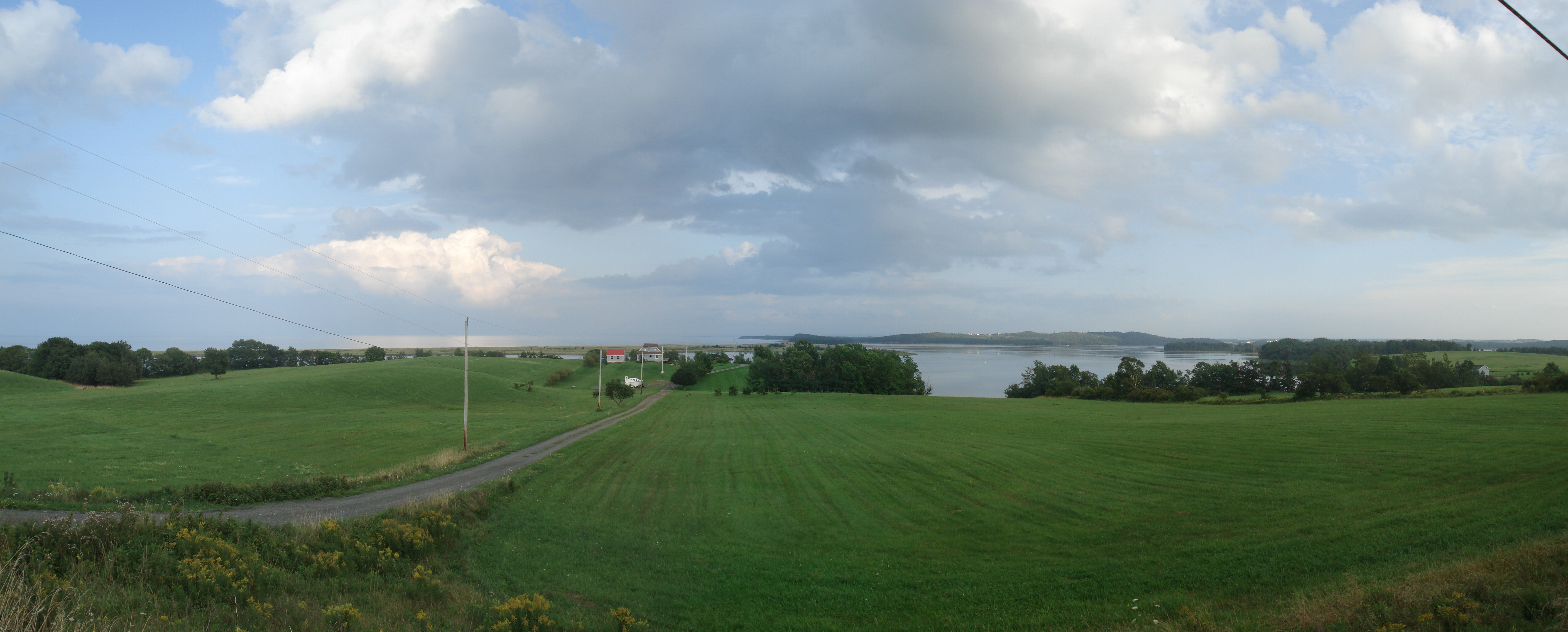 Panorama 2 of Antigonish Harbour